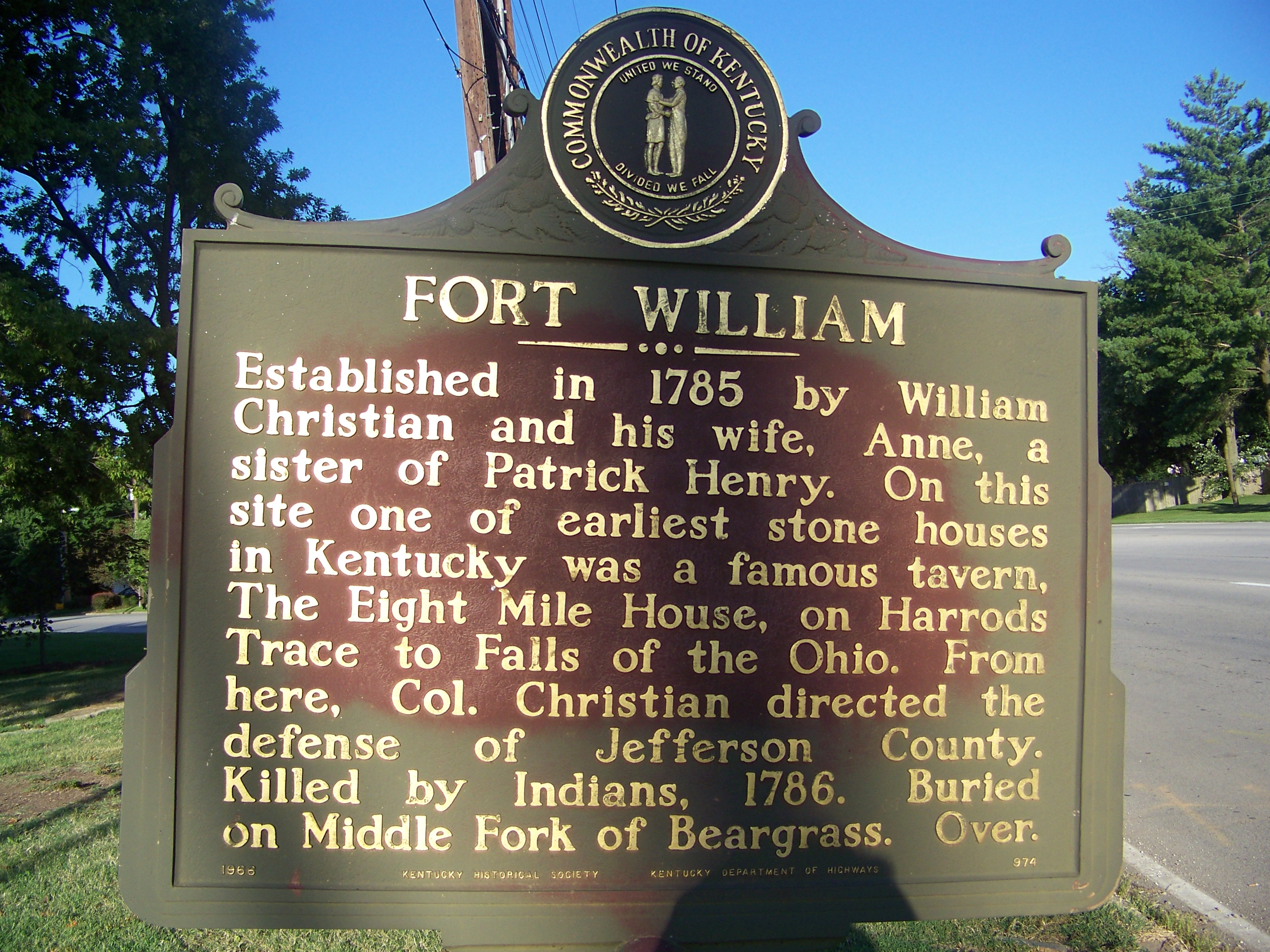 Historical Marking at Fort William